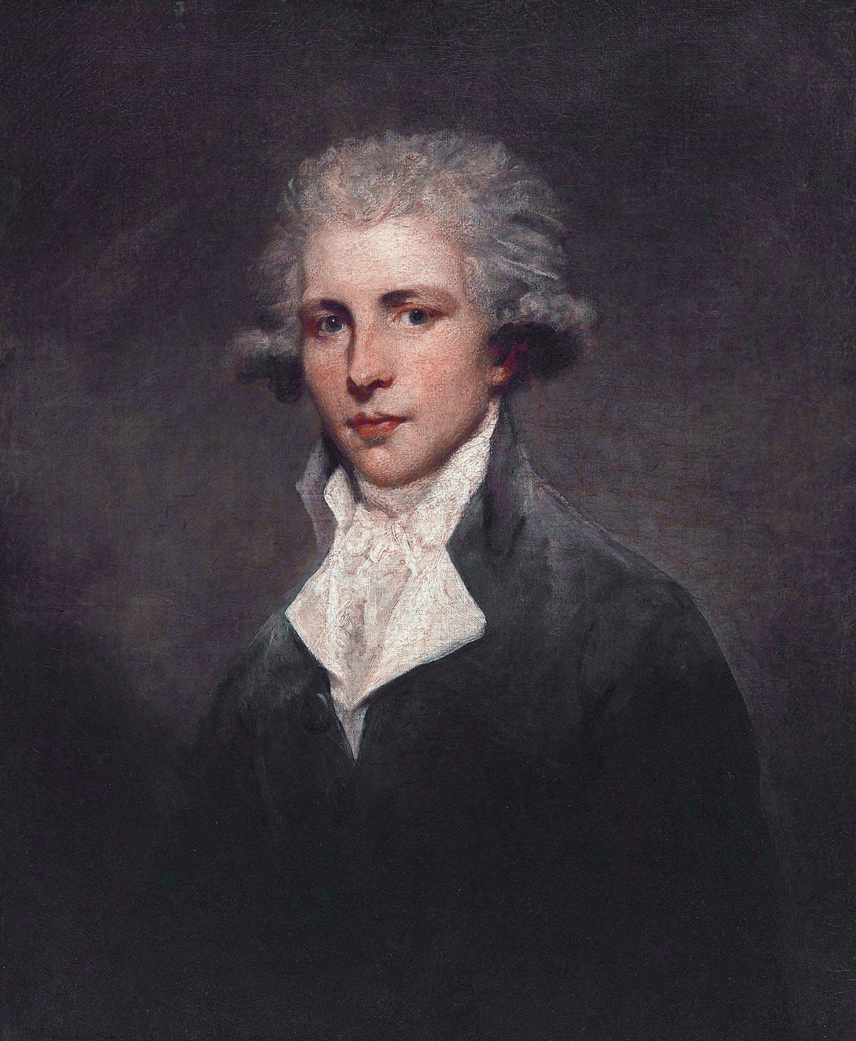 Portrait of John St. Aubyn, 5th Bt., M.P. (1758-1839)